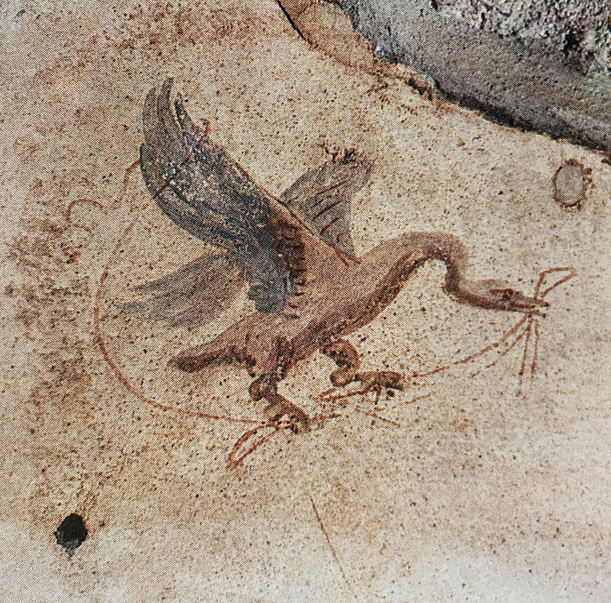 House of the Prince of Naples in Pompeii Plate 137 Cubiculum C Emblem on North Wall